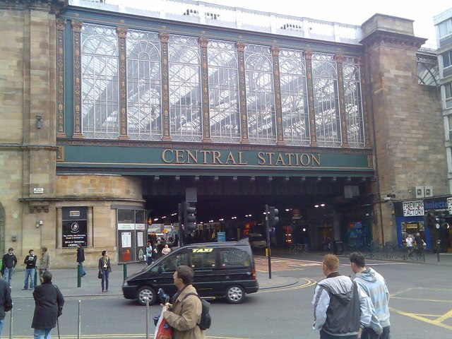 Central Station Bridge, Glasgow The bridge more famously known as the Hielanman's Umbrella, viewed from the west side of the station.